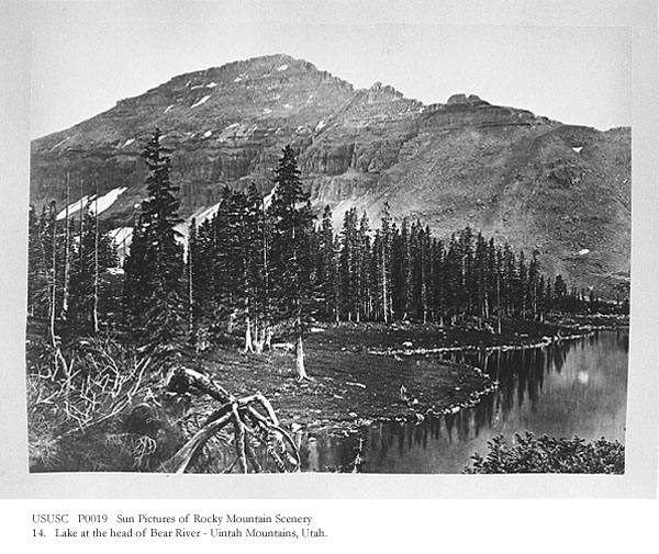 Lake at the head of Bear River, Uintah Mtns, Utah "Sun Pictures of Rocky Mountain Scenery" Photograph Collection, 1868-1870 URL